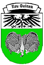 Coat of arms of German New Guinea. Emerson